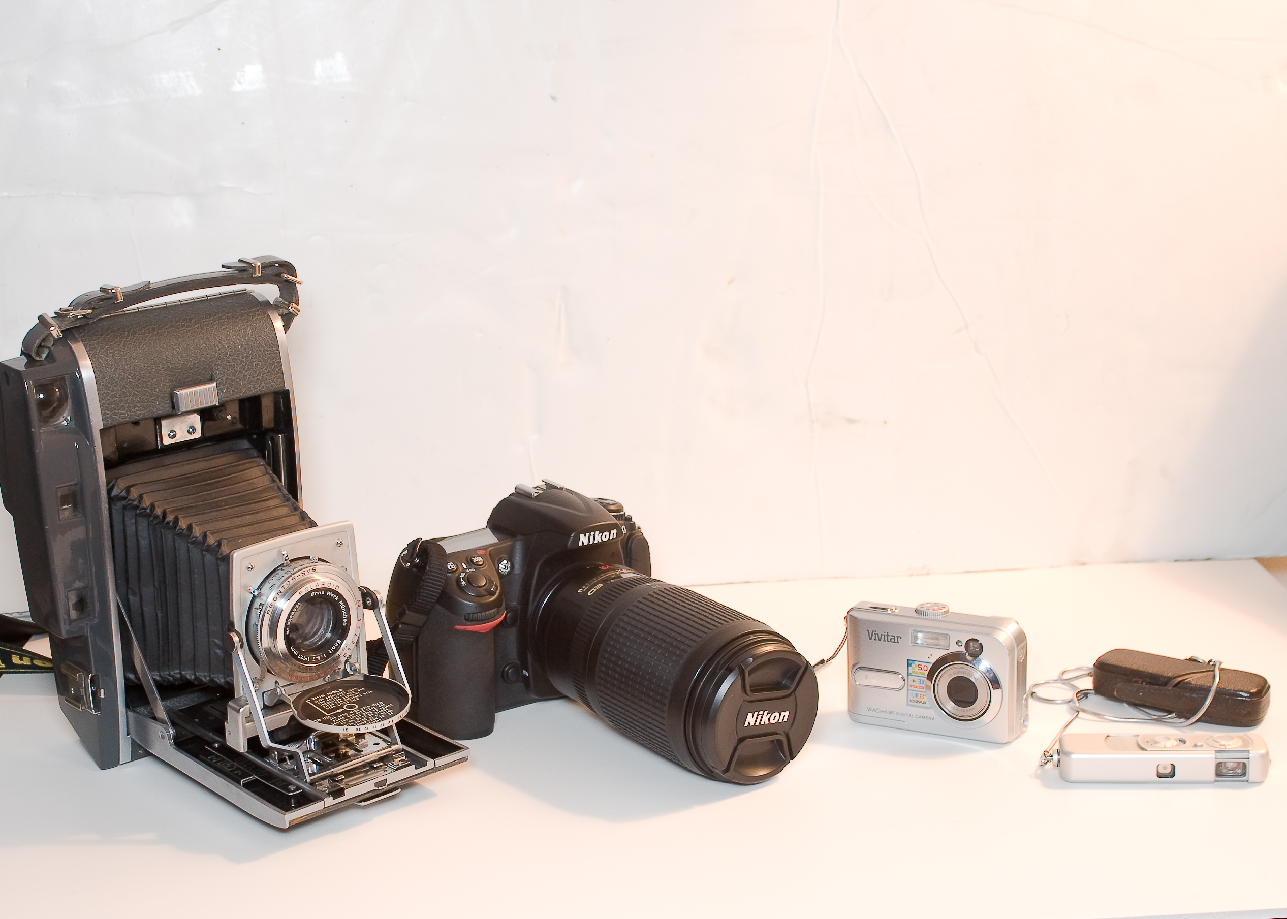 Cameras from Large to Small, Film to Digital.